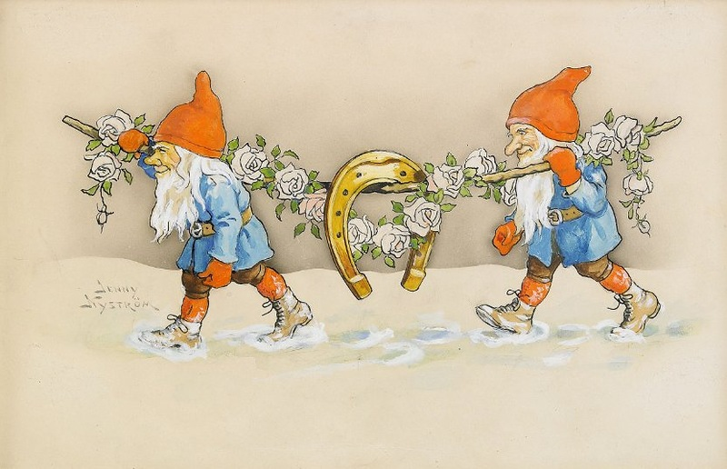 Jenny Nystrom. God Jul.